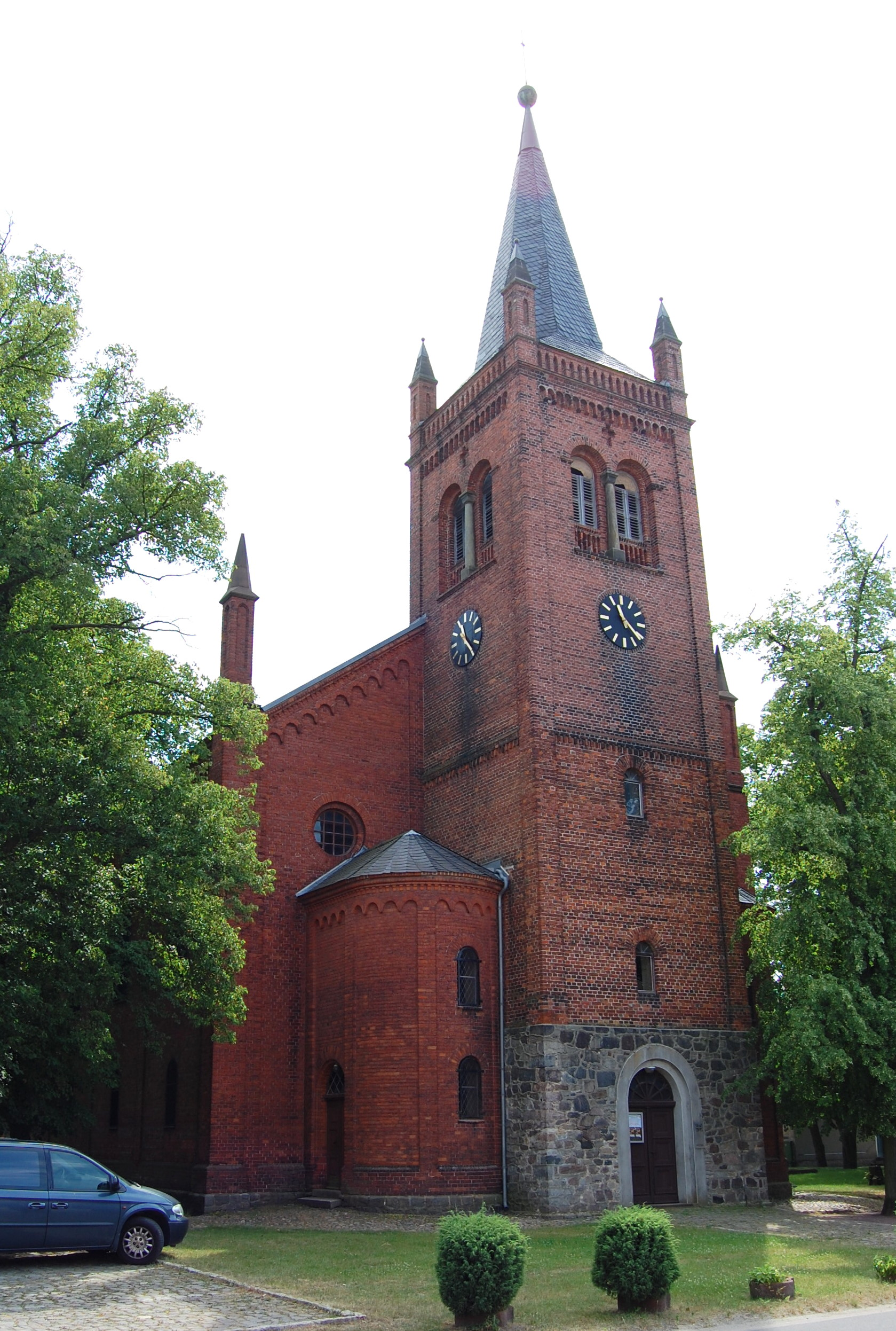 Pauluskirche Colbitz